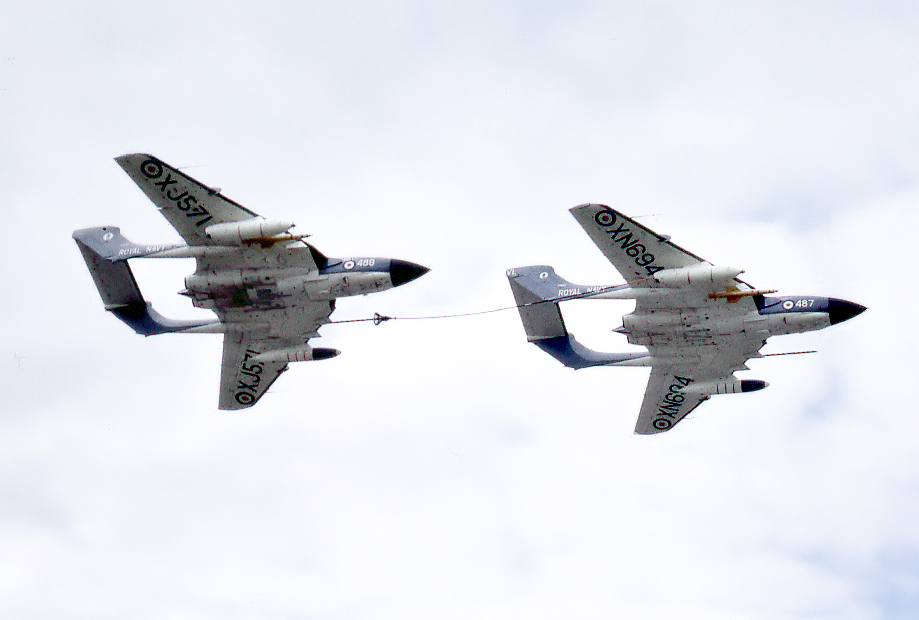 Sea Vixens refuelling at the Farnborough Air Show, England, somewhere between 1961 and 1970. XJ571 was built as an FAW1 in 1960 and converted to an FAW2 in 1964. This aircraft still exists (non-flying) at the Solent Sky Museum, Southampton, Hampshire, England. XN694 was built in 1961 and scrapped in1970 (hence my statement above that the photo was taken between 1960 and 1970). Both aircraft are the FAW1 variant as the absence of elongated twin booms testifies. Photographed by Adrian Pingstone and released to the public domain.